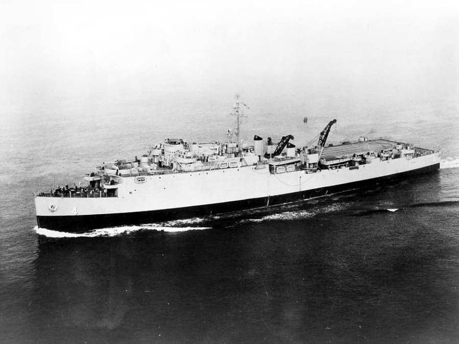 The U.S. Navy dock landing ship USS Epping Forrest (LSD-4) at sea, date and location unknown.